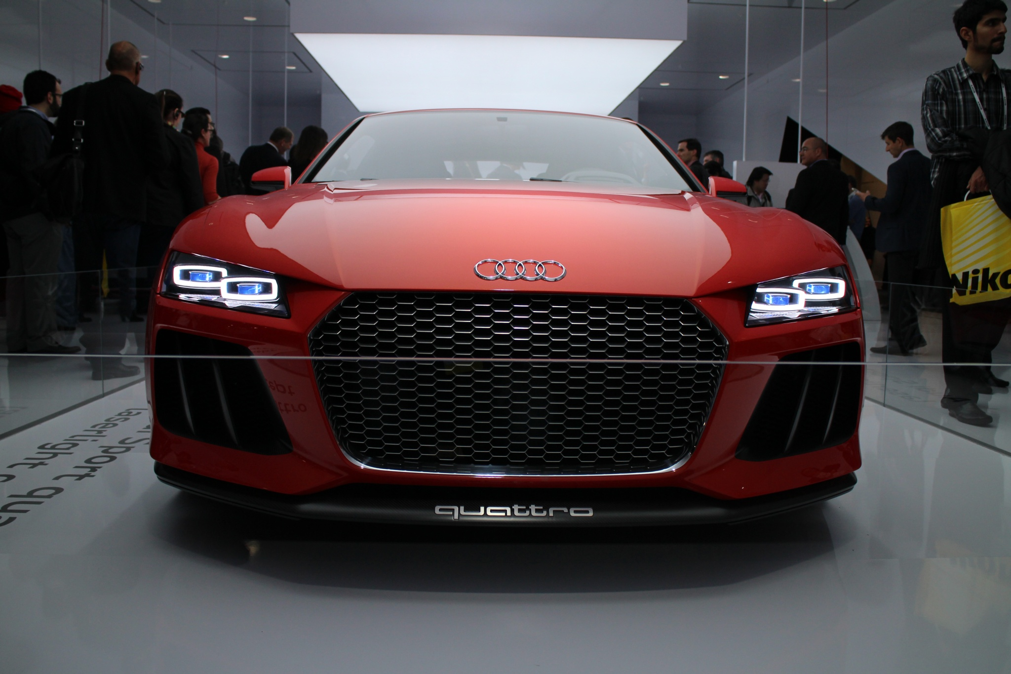 Virtual Cockpit of the new Audi TT, MMI Touch, conceptual Laserlights, zFAS Sensor Motherboard in early alpha and beta status, the Audi CEO Rupert Stadler and his head of electronics development Ricky Hudi